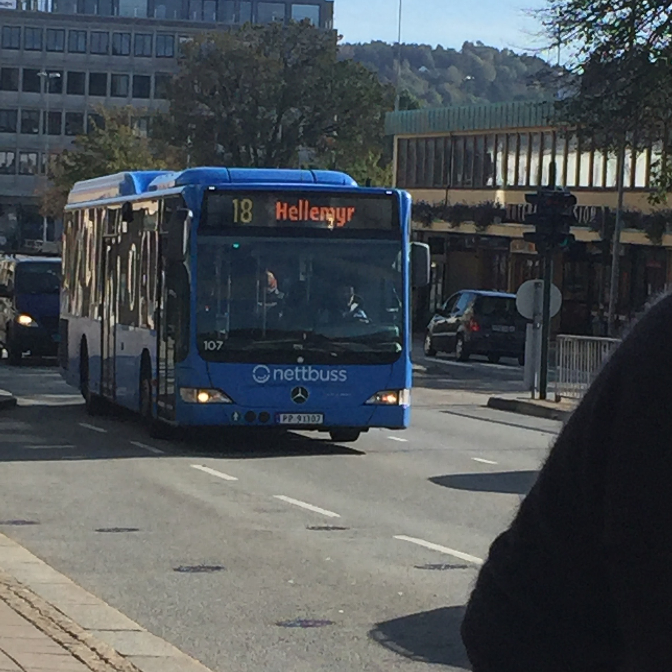 Bus in Kristiansand